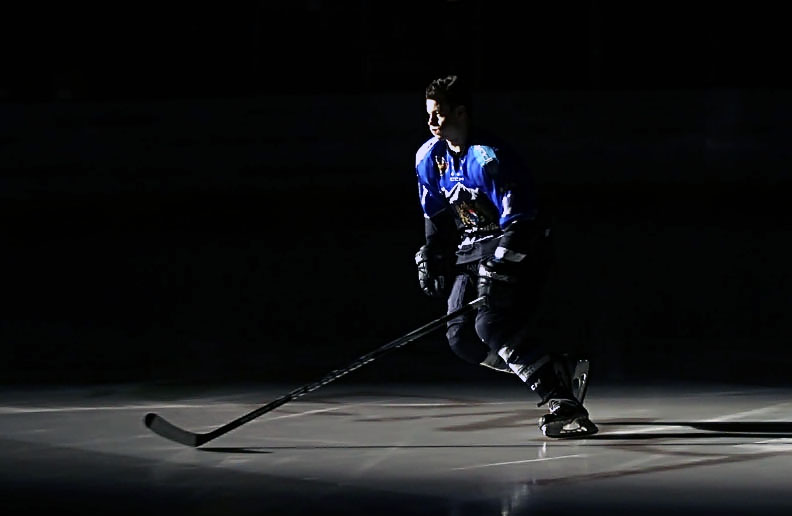 Andrew Lord playing for the SC Riessersee during his 2012/13 season.